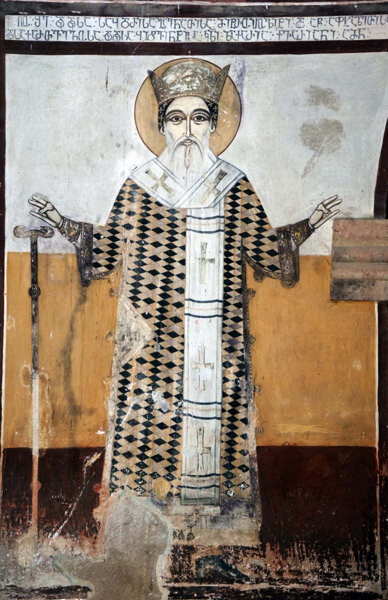 Catholicos Zacharias Kvariani (died 1660). A fresco from the Gelati monastery, Georgia. The inscription reads in Georgian: ”ღმერთო, შეიწყალე დიდისა საყდრისა გაენათისა მიტროპოლიტი და აწ აფხაზეთისა და საქართველოსა დიდისა ბიჭვინთისა კათალიკოზი ზაქარია ქვარიანი, ამინ”